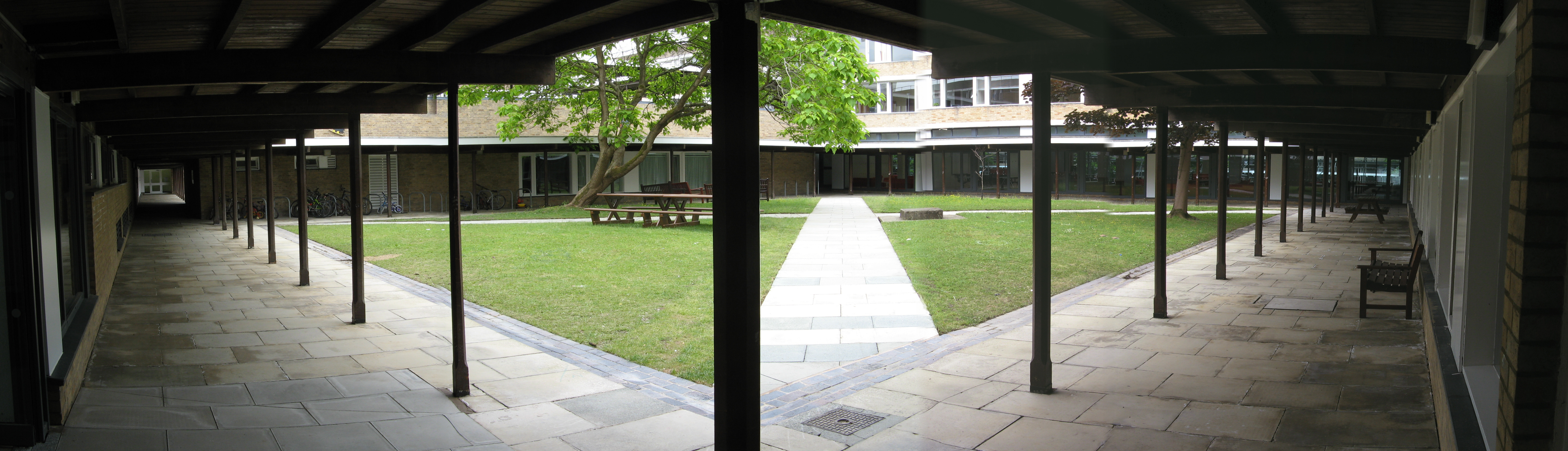 A Bowland College residence's grass quad at Lancaster University, from the covered walkway. This is the south-west quad.